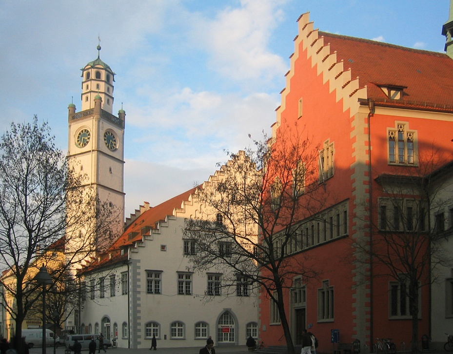 Ravensburg, Germany: Marienplatz square Blaserturm tower with Waaghaus (left), and Rathaus (Town Hall, right)